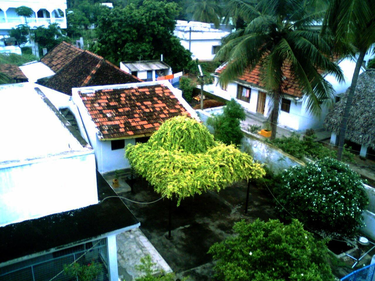 A view of Rajula Tallavalasa village in Visakhapatnam District, Andhra Pradesh